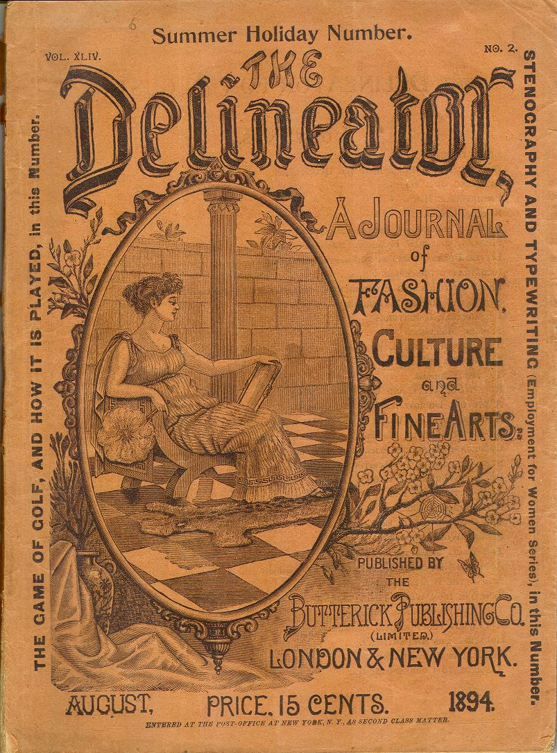 The Delineator August 1894 issue.